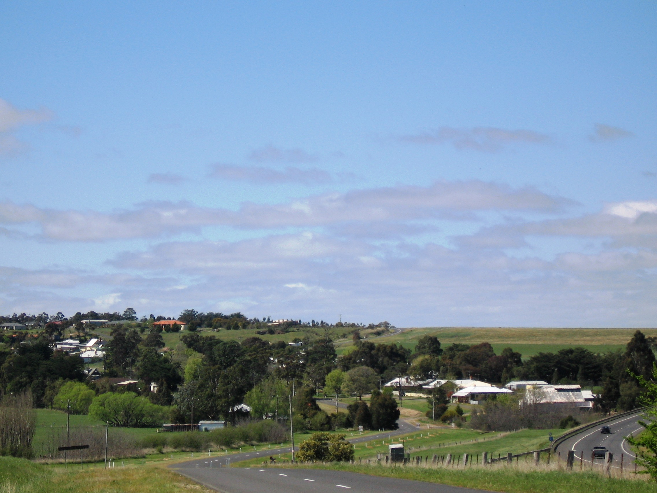 Myrniong, Victoria seen from the west. The Western Freeway (Victoria) can be seen in the right of shot.